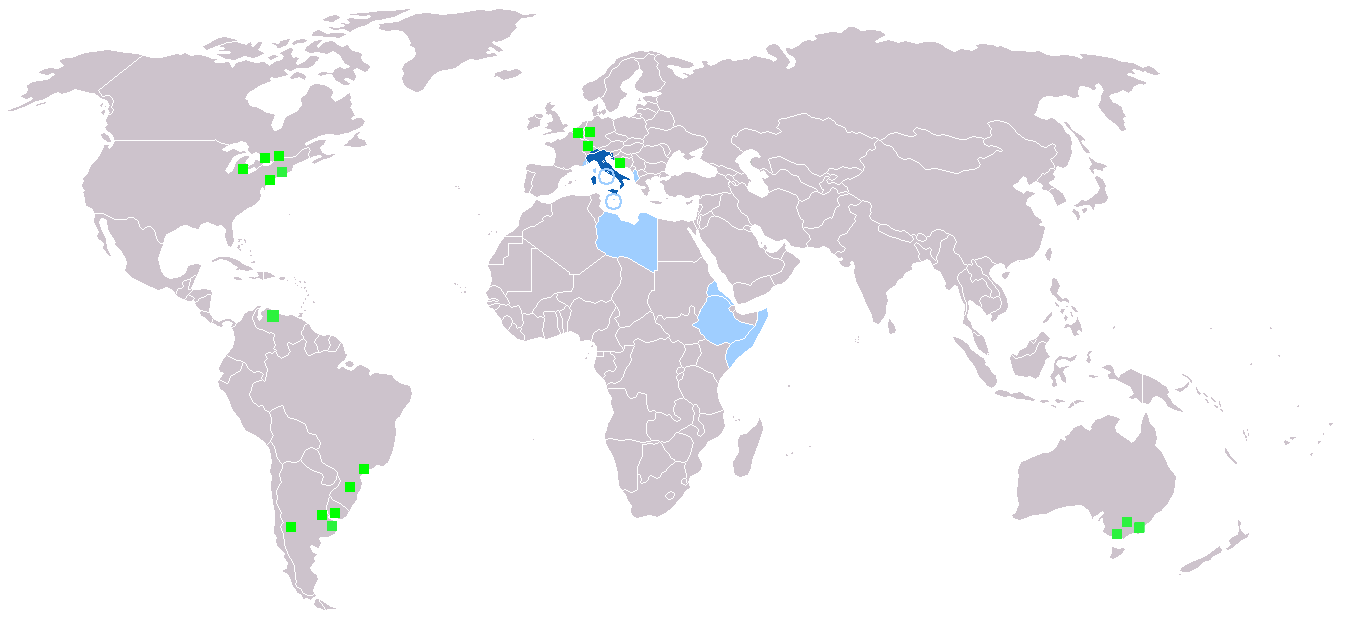 Legend: Native language Administrative language Secondary language or non-official. Italophone minorities